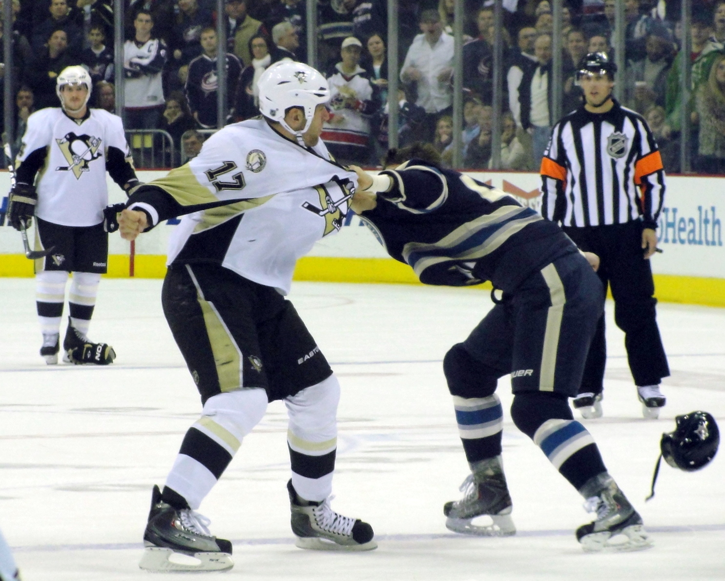 Mike Rupp with the Pittsburgh Penguins in 2010 fighting Jared Boll of the Columbus Blue Jackets. December 4, 2010. Nationwide Arena, Columbus, OH.